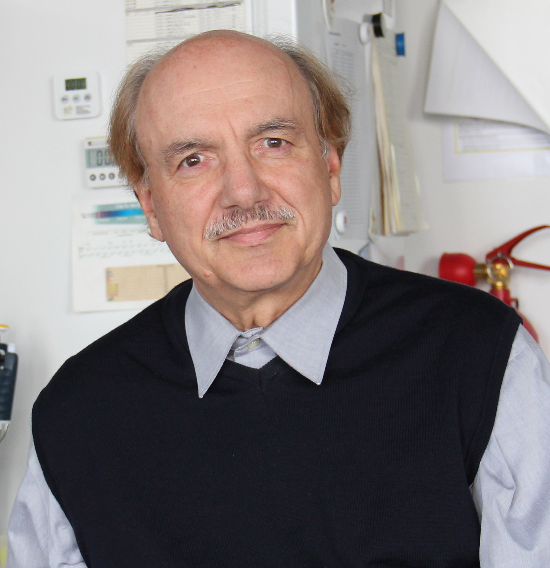 This file shows Herbert Zimmermann in his laboratory in Frankfurt